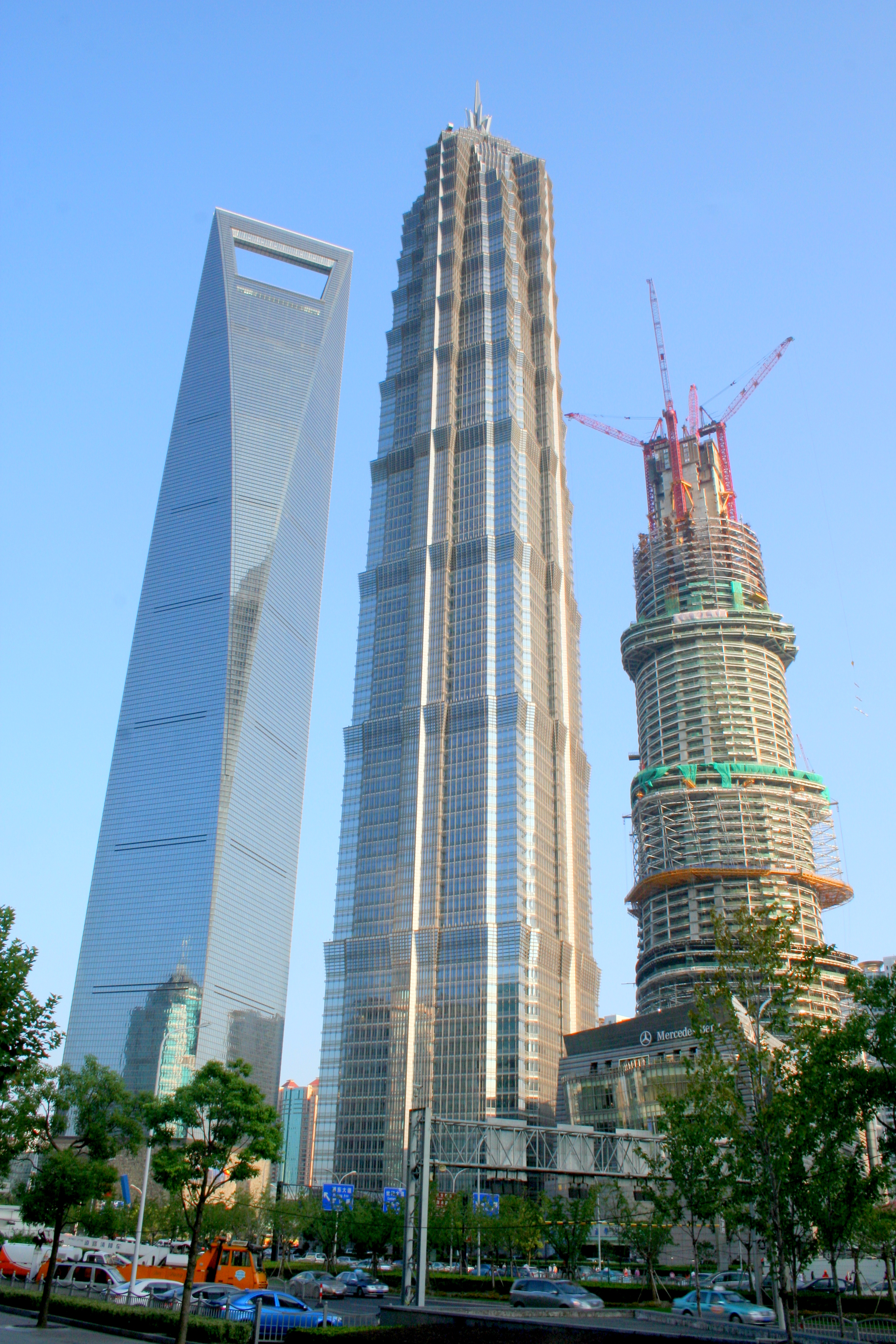 This is a picture of the Shanghai World Finance Center, Jin Mao Tower, and Shanghai Tower, as it was under construction in August 2012.